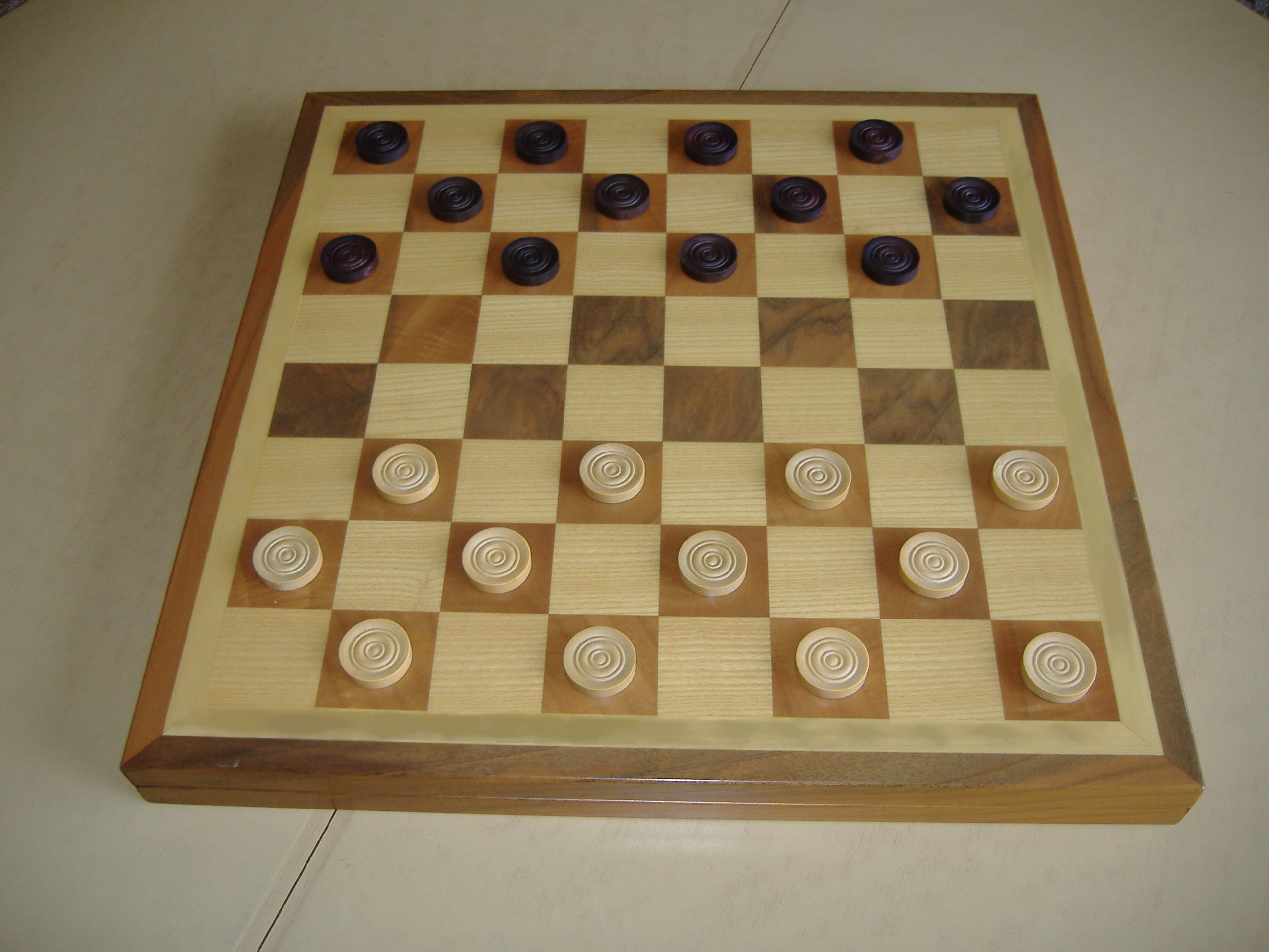 Photo of Damiera ready to start a game of italian draughts. Author: Joey Atroce, info